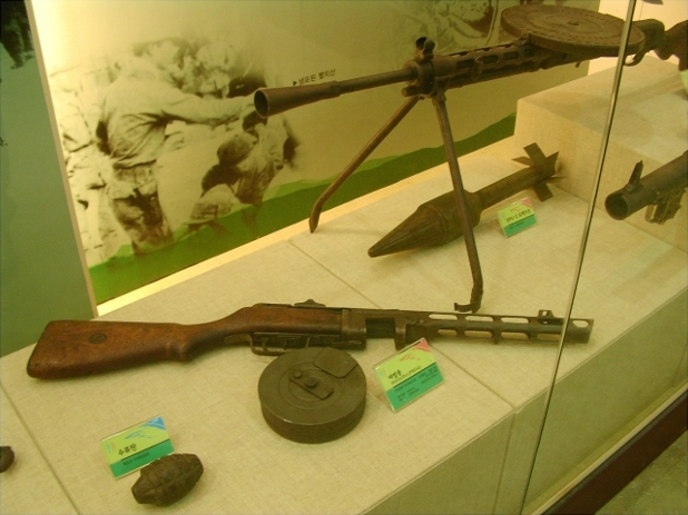 Museum in Namwon, South Korea (남원 지리산 유물전시관)